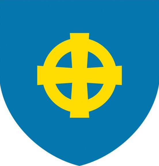 Vormsi parish (Vormsi vald), Estonia, coat of arms